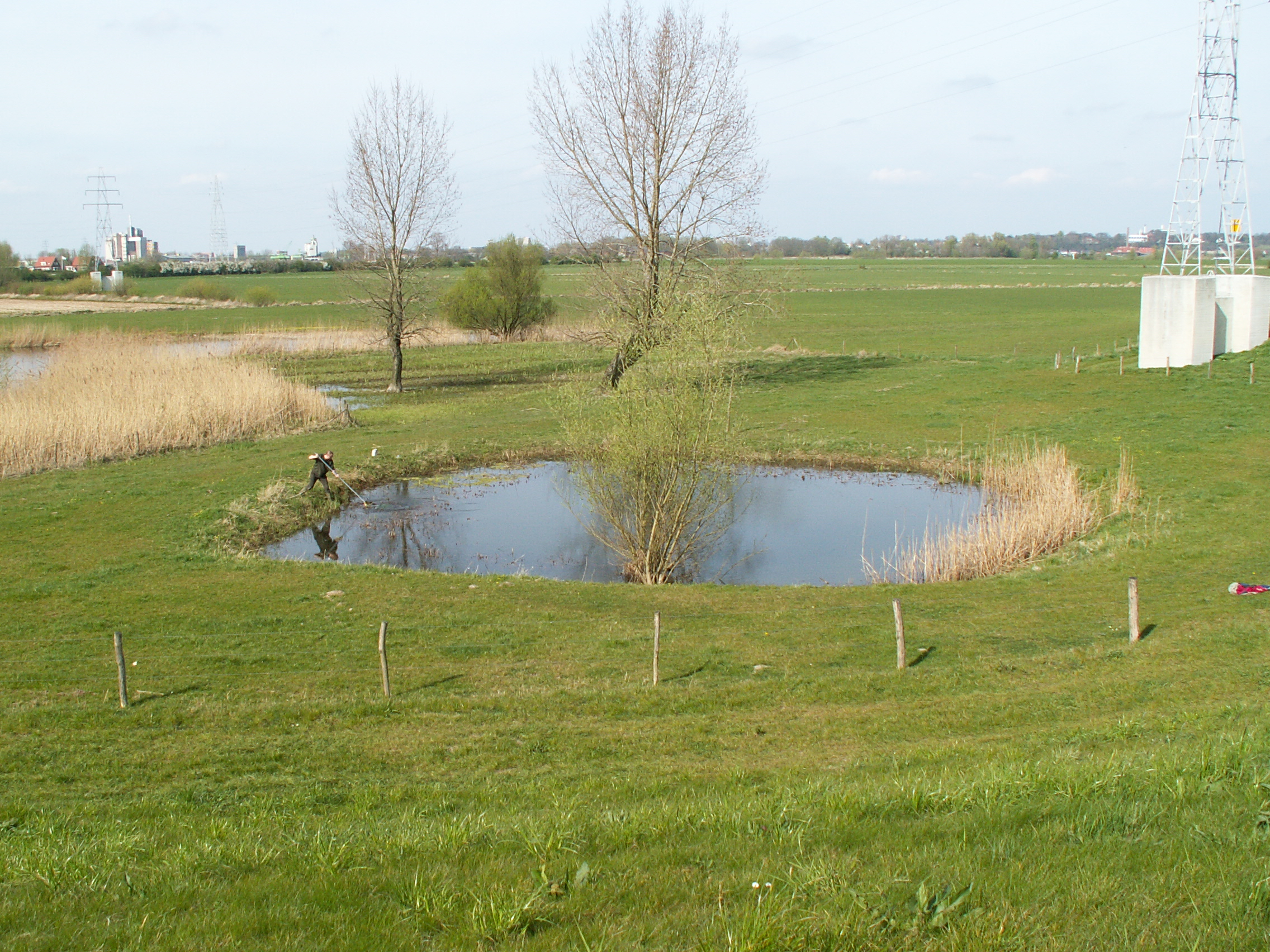 Habitat of crucian carp, small vegetation rich pond in a river bank, also shallower pools can be used. Nederrijn, The Netherlands